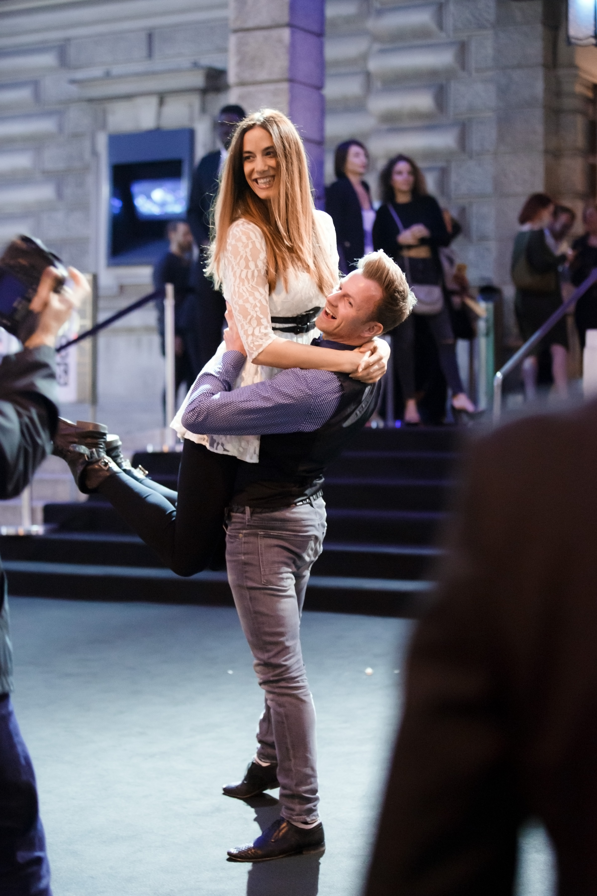 Nina Hartmann and Willi Gabalier at the Amadeus Austrian Music Award 2015 at Volkstheater in Vienna